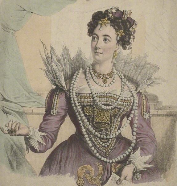 Margaret Agnes Bunn (née Somerville) as Elizabeth in 'Kenilworth' hand-coloured lithograph, 1824 or after 15 5/8 in. x 11 5/8 in. (396 mm x 295 mm) paper size Purchased, 1966 NPG D32386